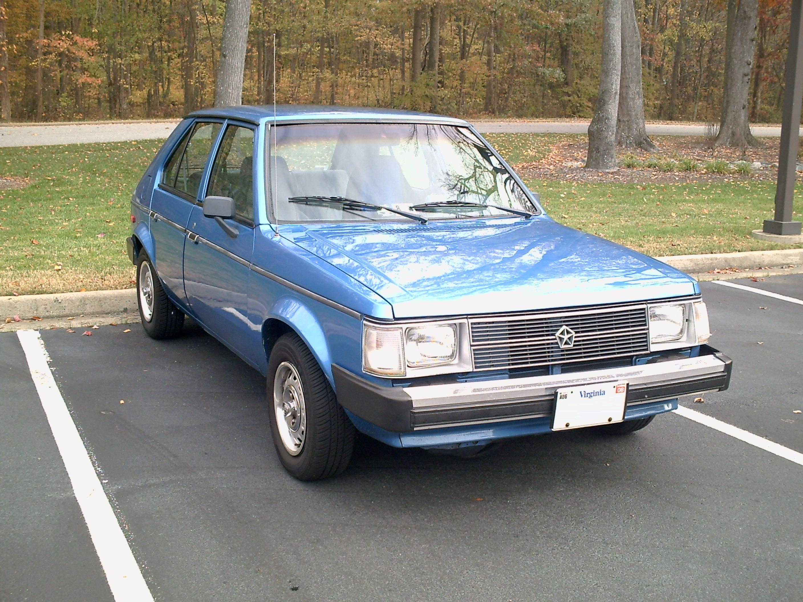 1990 Dodge Omni